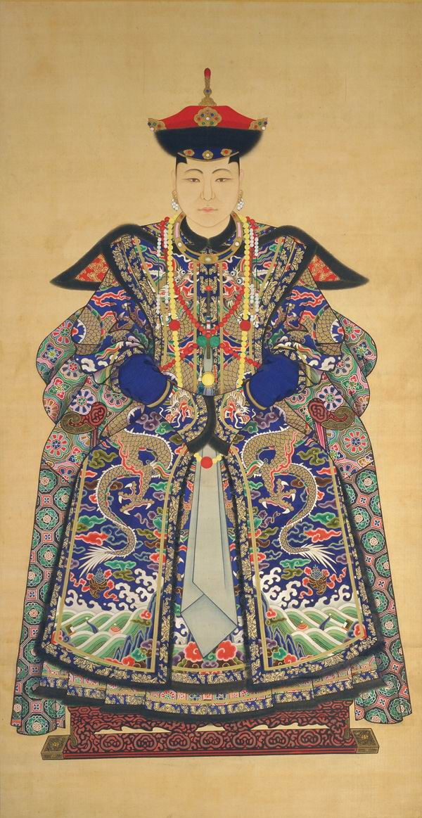 Portrait of Sumalagu, ink and color on silk, H: 188.9 W: 98.4 cm